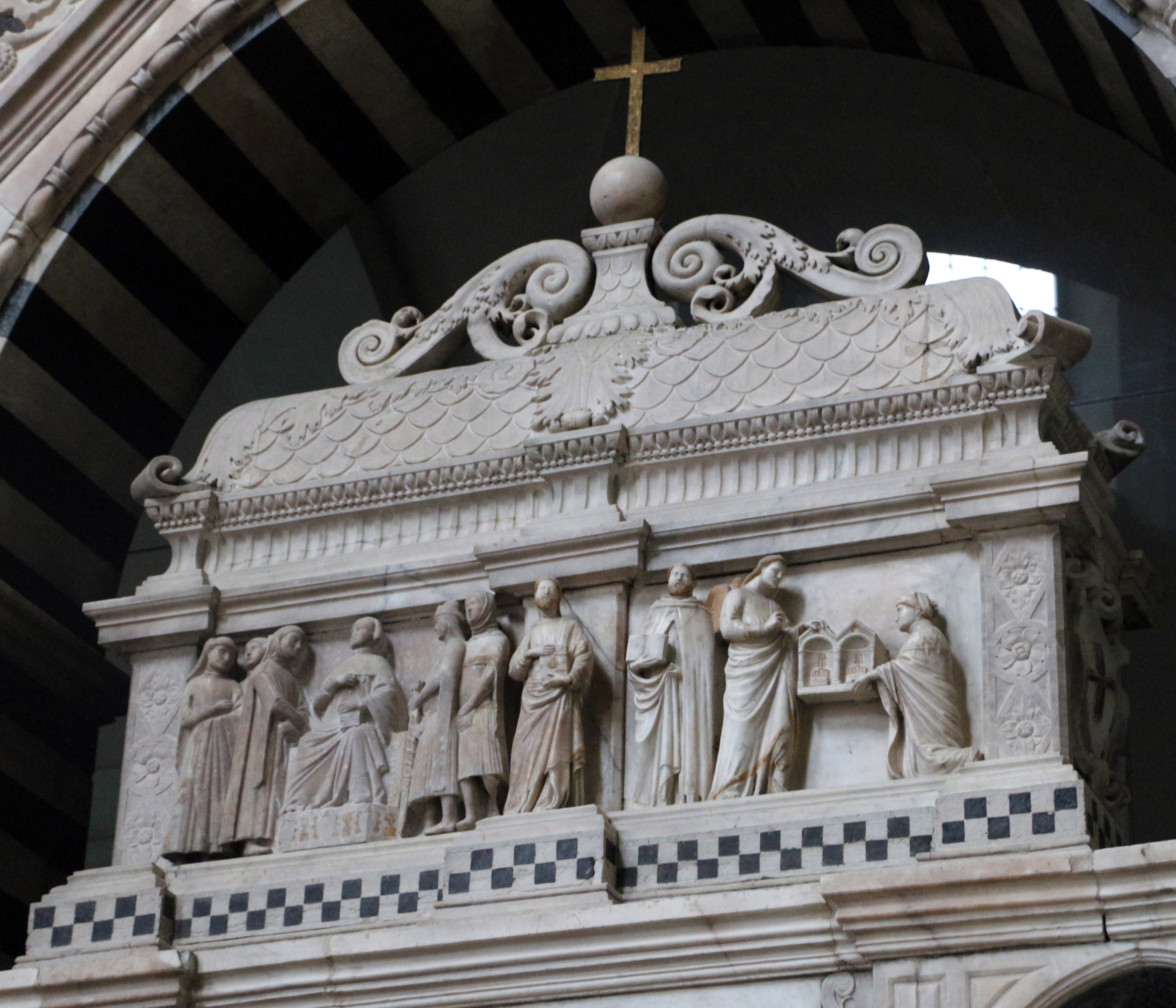 San Domenico (Bologna)